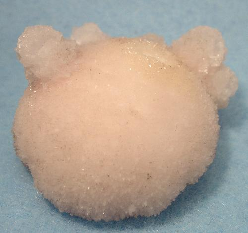 Calcite (Var.: Manganoan Calcite), Kutnohorite Locality: Wessels Mine (Wessel's Mine), Hotazel, Kalahari manganese fields, Northern Cape Province, South Africa (Locality at ) Size: 3.3 x 2.8 x 1.8 cm. Fascinating and very attractive spheres of pink Manganoan Calcite that grew as a crust on Kutnohorite crystals. The Manganoan Calcite has a lovely drusy, sparkly, nice color, and brilliant fluorescence. The largest of the spheres is 2.7 cm across. The Kutnohorite below is completely intact, which is not always the case. A very unusual, and quite striking, specimen. Ex. Charlie Key.